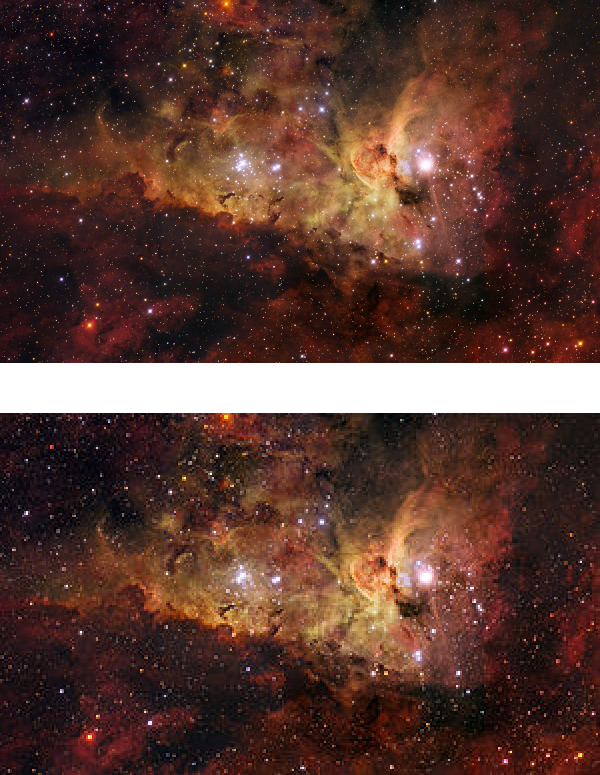 The Carina Nebula - model image to compare jpeg quality for Wikipedia. Top image is normal quality, while bottom image has been moderately compressed.